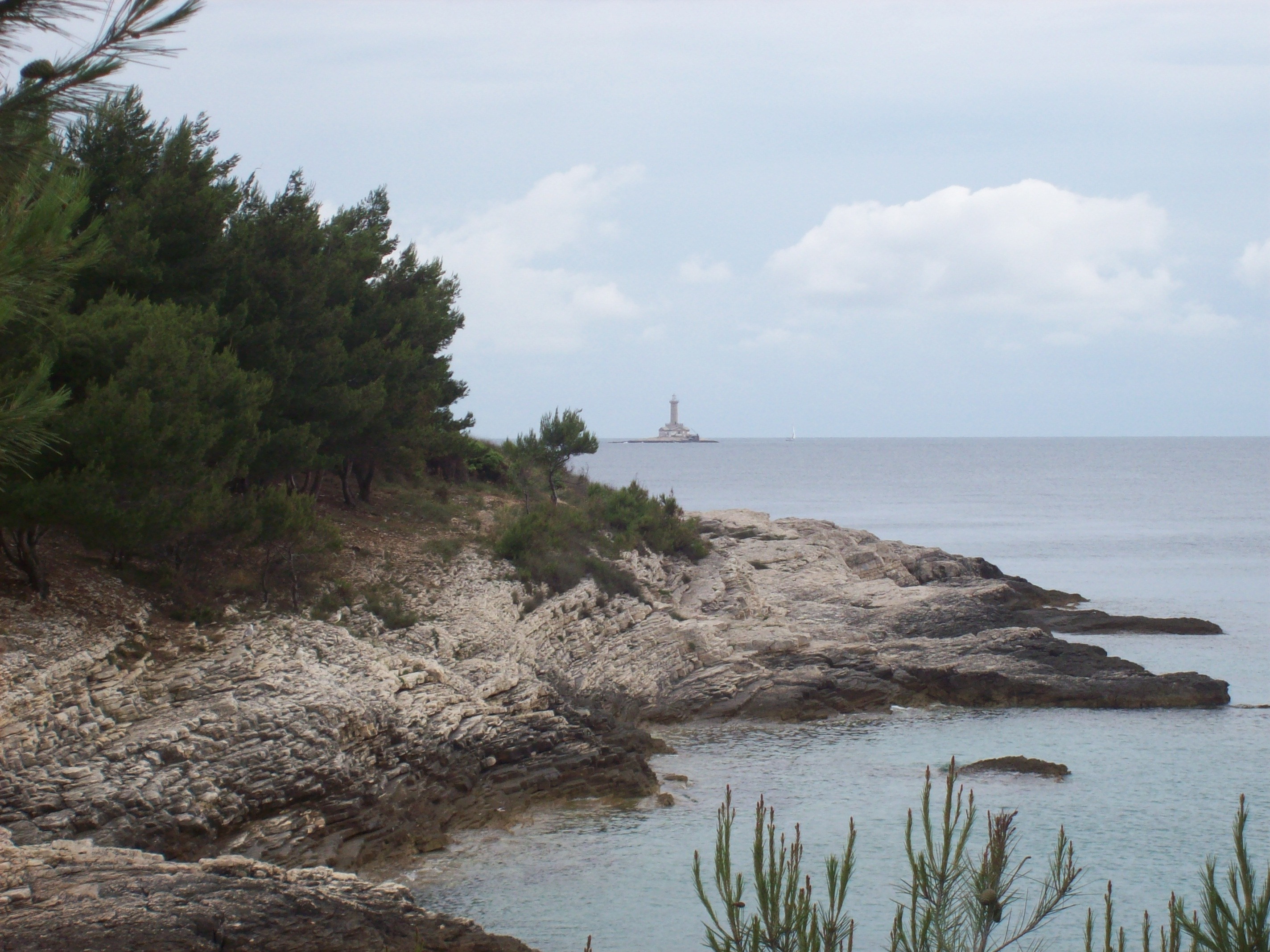 Islet Porer from the cape Kamenjak